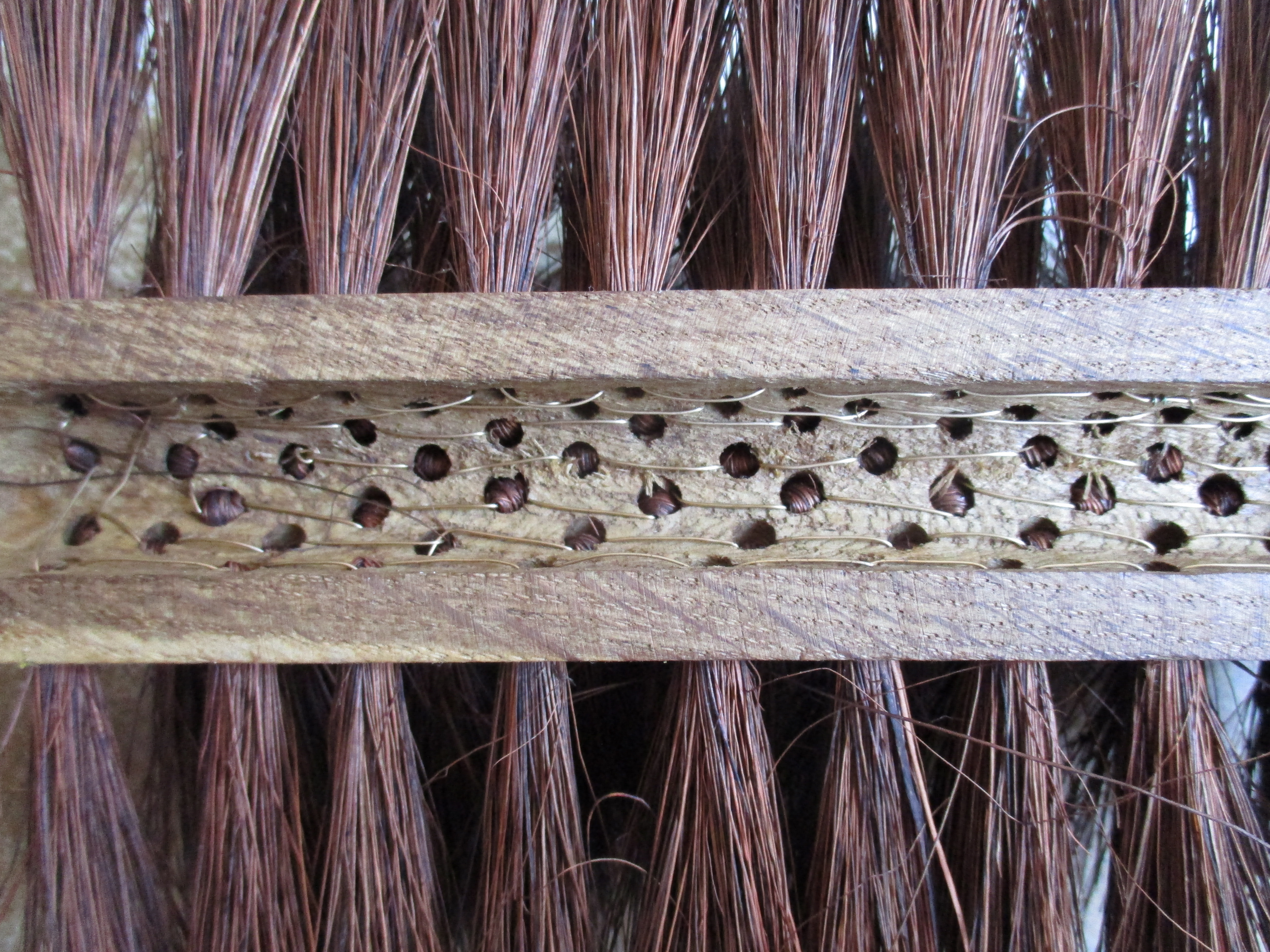 Back of an household brush hand made with arenga fiber and metallic wire